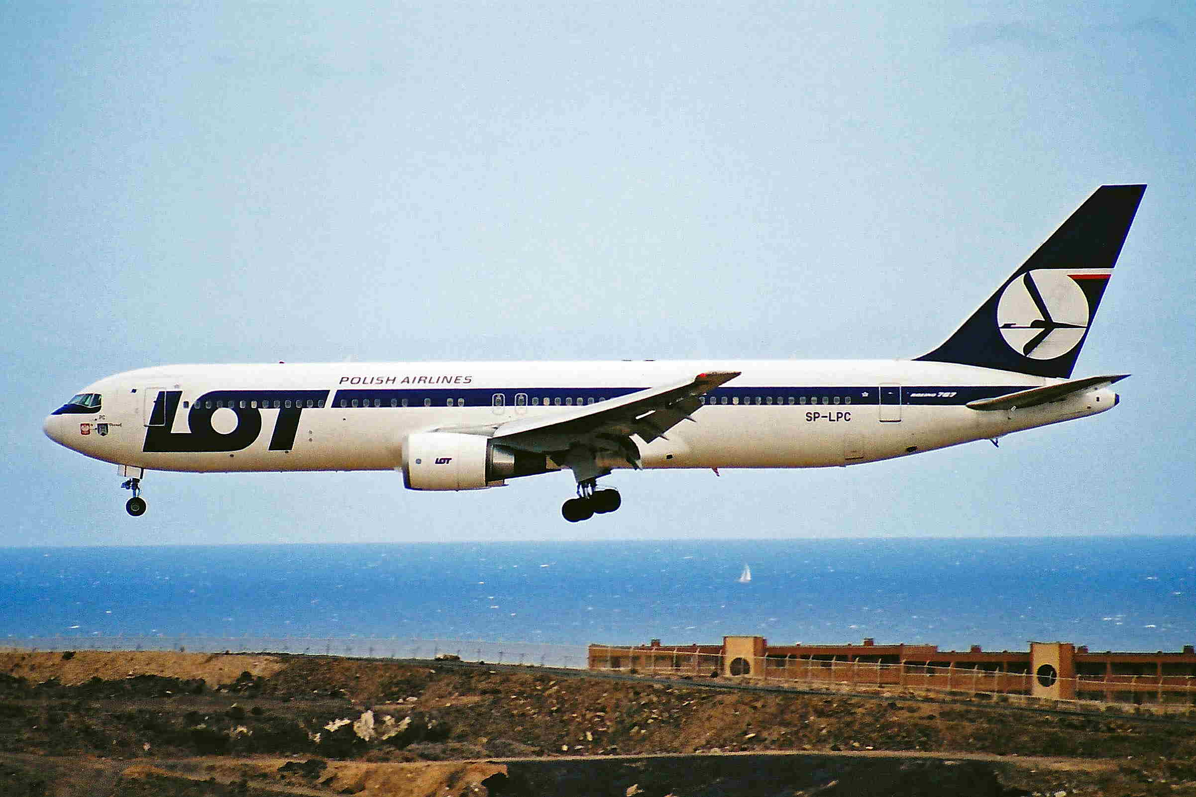 This is the aircraft which did a 'textbook' wheels-up landing at Wawsaw (WAW) on 01-Nov-11.